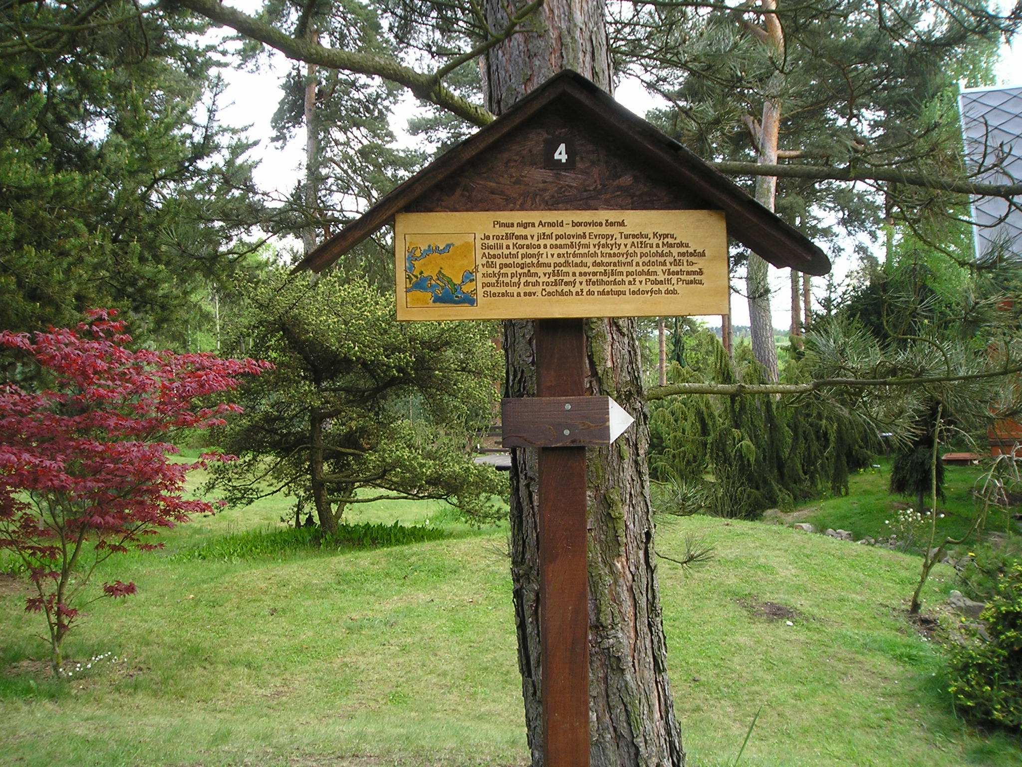 Sofronka arboretum, Pilsen - educational trail